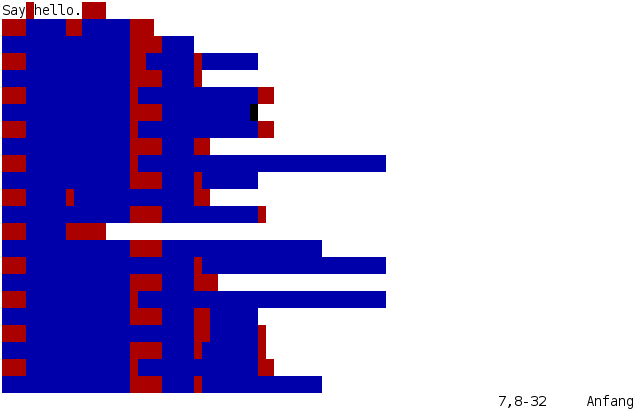 Whitespace Hello World A hello world example in the programming language Whitespace. The space and tab characters are highlighted in order to make a screenshot possible. Vim GUI is removed because of copyright concerns. tabs spaces